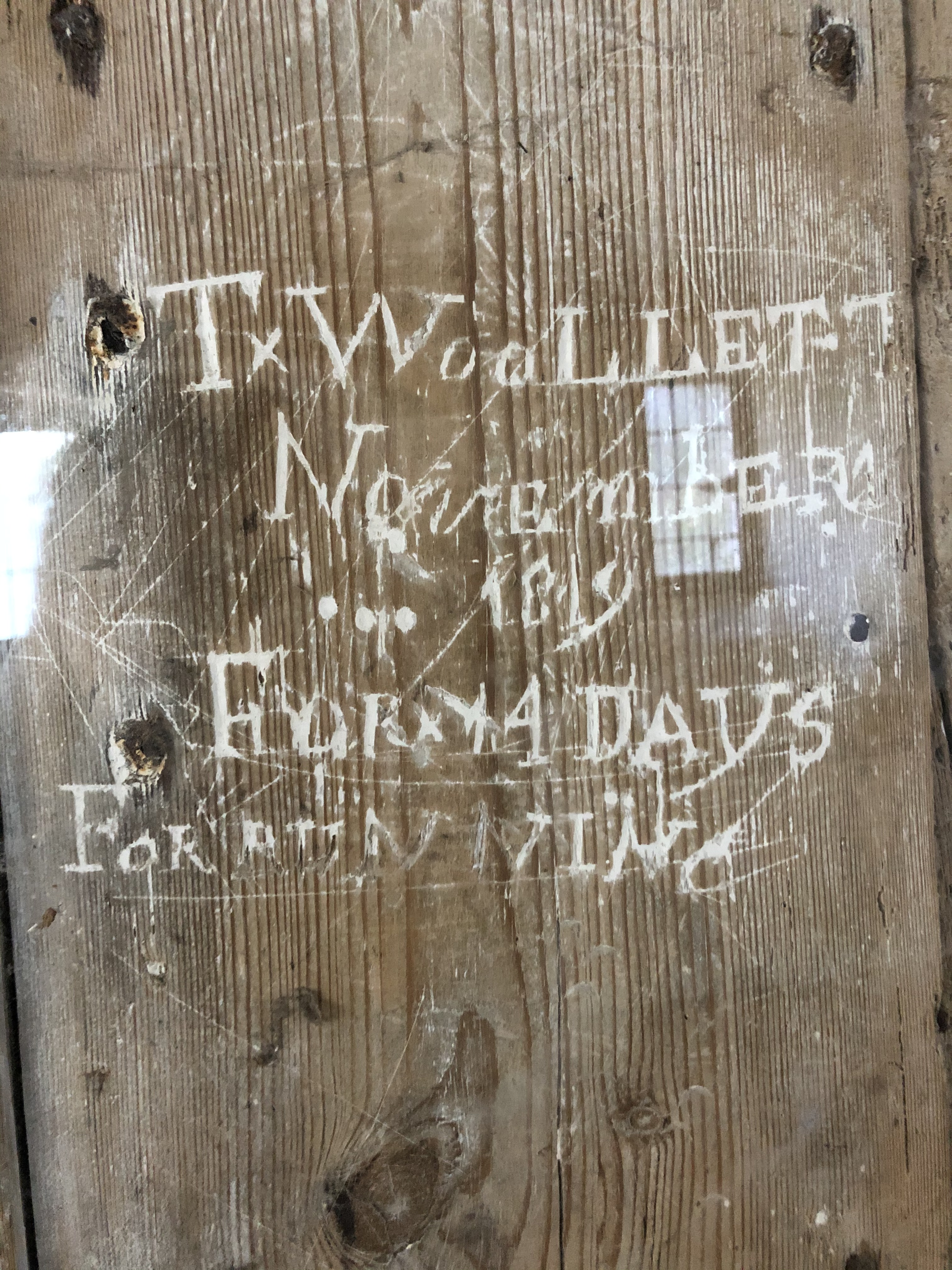 Graffiti on the walls of Greyfriars Chapel, Canterbury. Text inscribed on the wall is as follows: 'T.Woollett. November 1819 For 14 Days For Running'